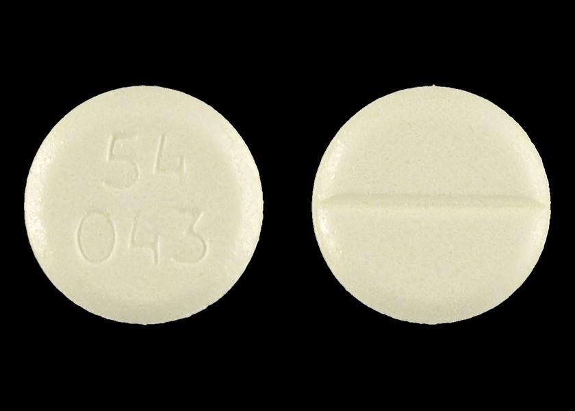 Drug Name: Azathioprine 50 mg oral tablet Ingredient(s): Azathioprine Drug Label Imprint: 54;043 Color: Pale yellow Shape: Round Size (mm): ? Score: 2 Inactive Ingredients: anhydrous lactose / magnesium stearate / povidone / starch, corn / stearic acid Drug Label Author: Roxane Laboratories, Inc DEA Schedule: Non-scheduled